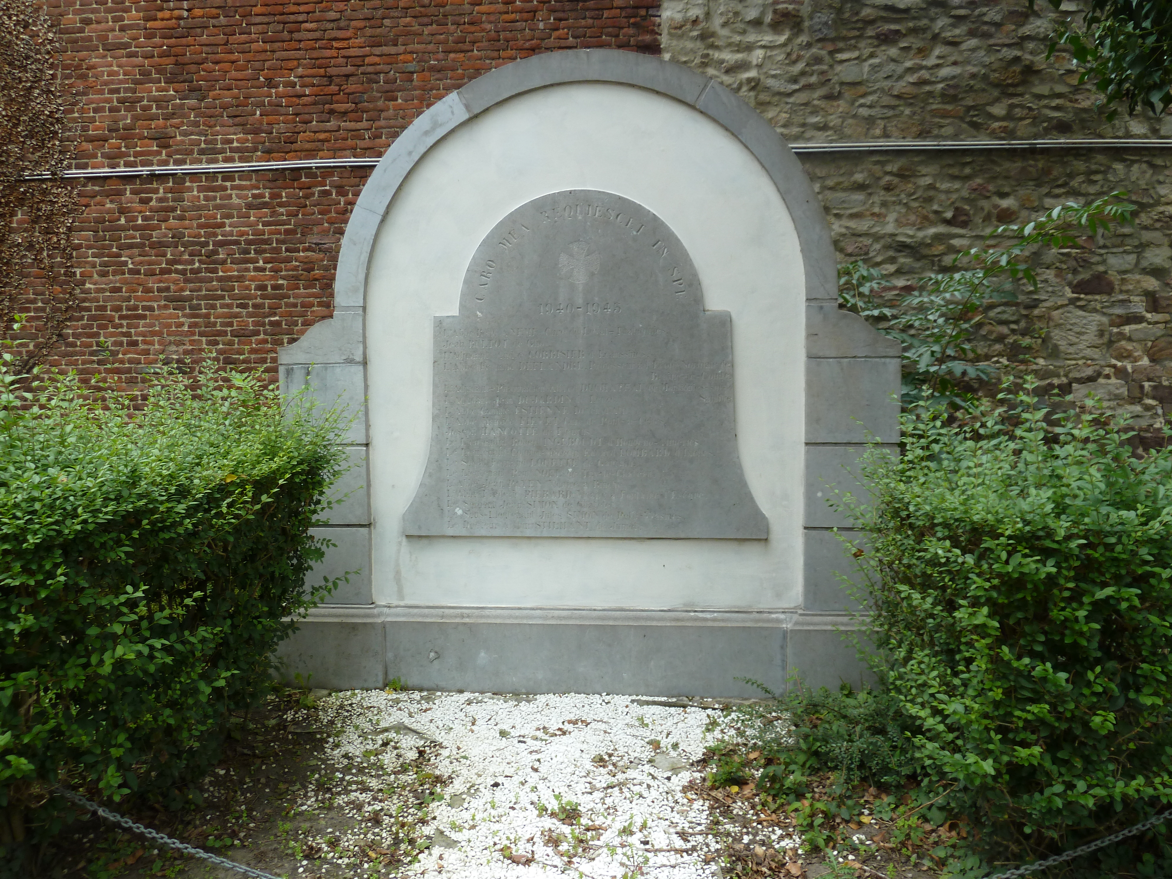 Vellereille-les-Brayeux (Belgium), main buildings of the Bonne-Espérance Abbey viewed from from the botanical garden entrance.